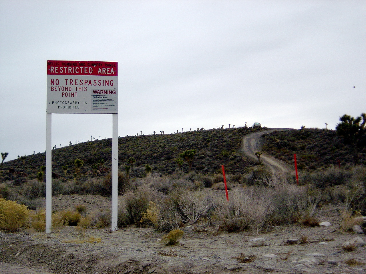 Warning sign near secret Area 51 base in Nevada. The text on the smaller sign reads: WARNING Restricted Area It is unlawful to enter this area without permission of the Installation Commander. Sec. 21, Internal Security Act of 1950; 50 U.S.C.797 While on this Installation all personnel and the property under their control are subject to search. Use of deadly force authorized. Prescribed by AFI 31-101 Supersedes AFVA 207-1, 10 October 1986 Distribution: F AFVA 31-101 14 July 1995 U.S.Government Printing Office